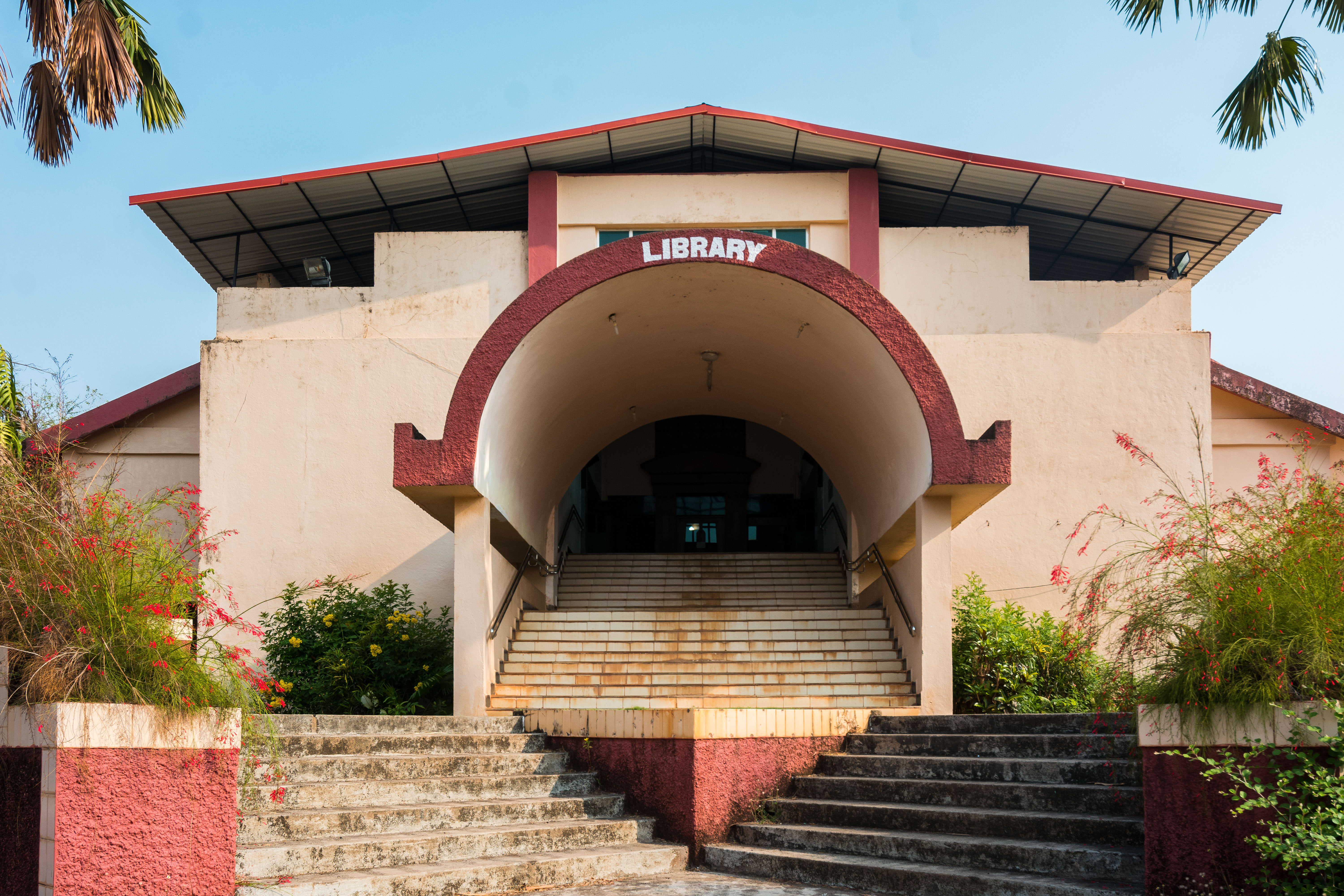 Goa University Library